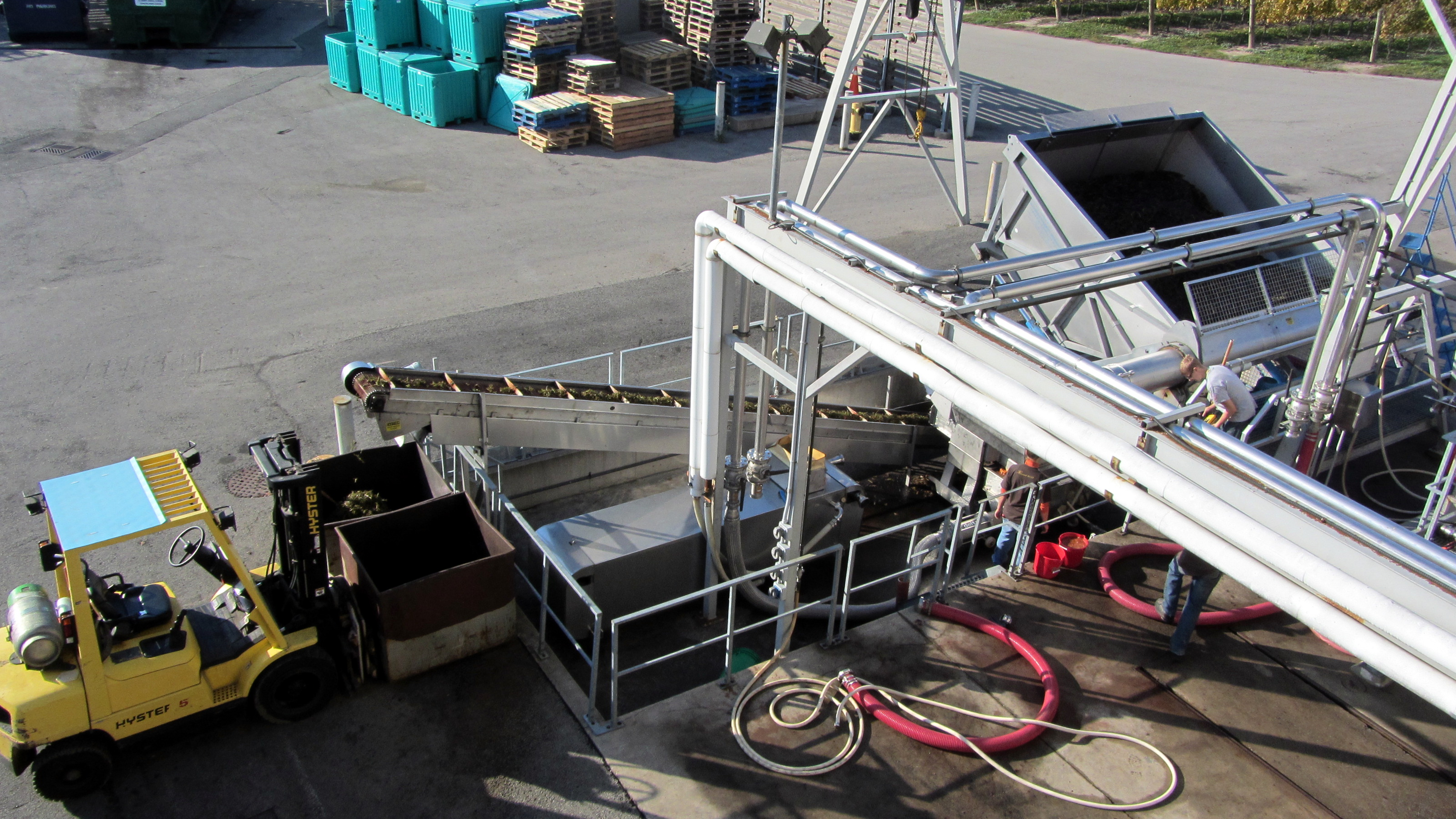 I think this contraption is separating the grapes from the stems and such.